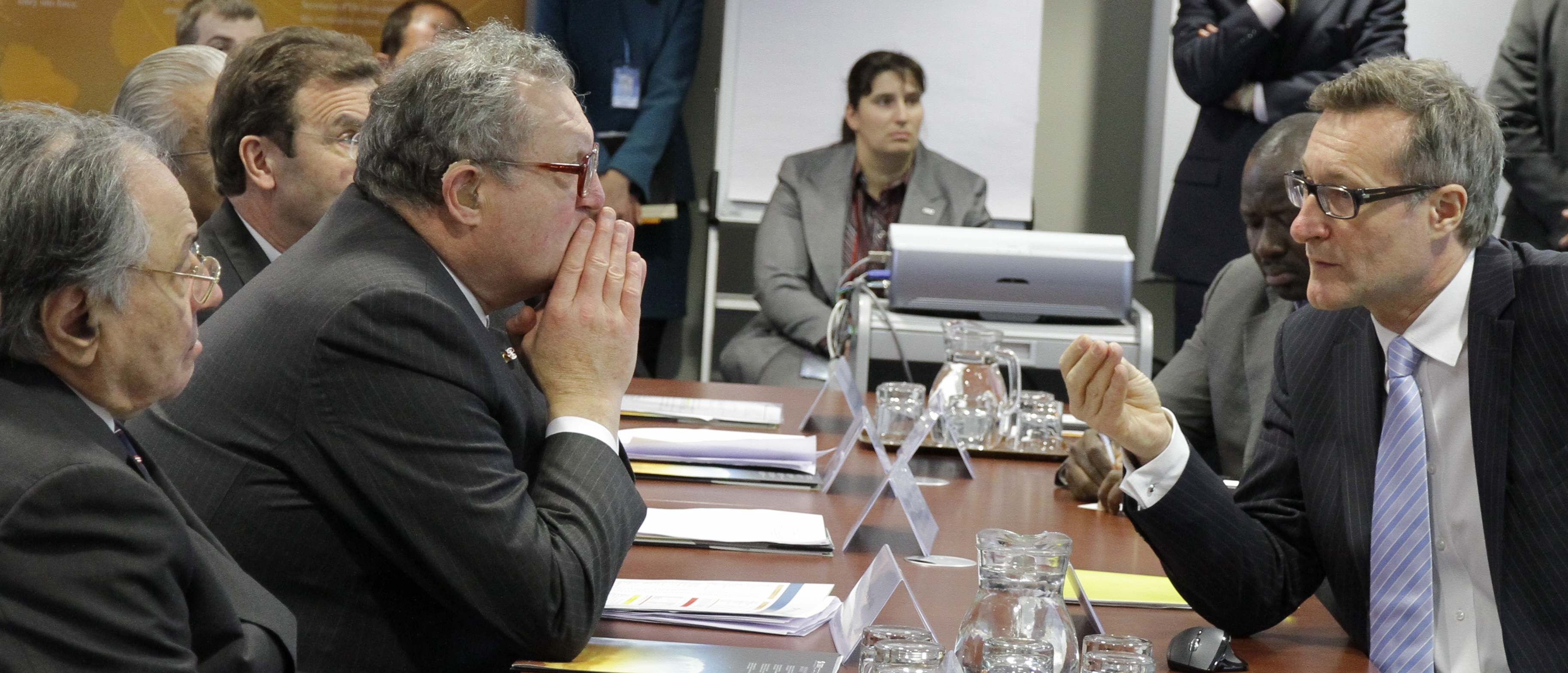 CTBTO Executive Secretary Ambassador Tibor Tóth briefs the Prince and Grand Master of the Sovereign Military Order of Malta Fra’ Matthew Festing at the CTBTO's headquarters in Vienna, Austria. Copyright CTBTO Preparatory Commission Photo taken by Pablo Mehlhorn